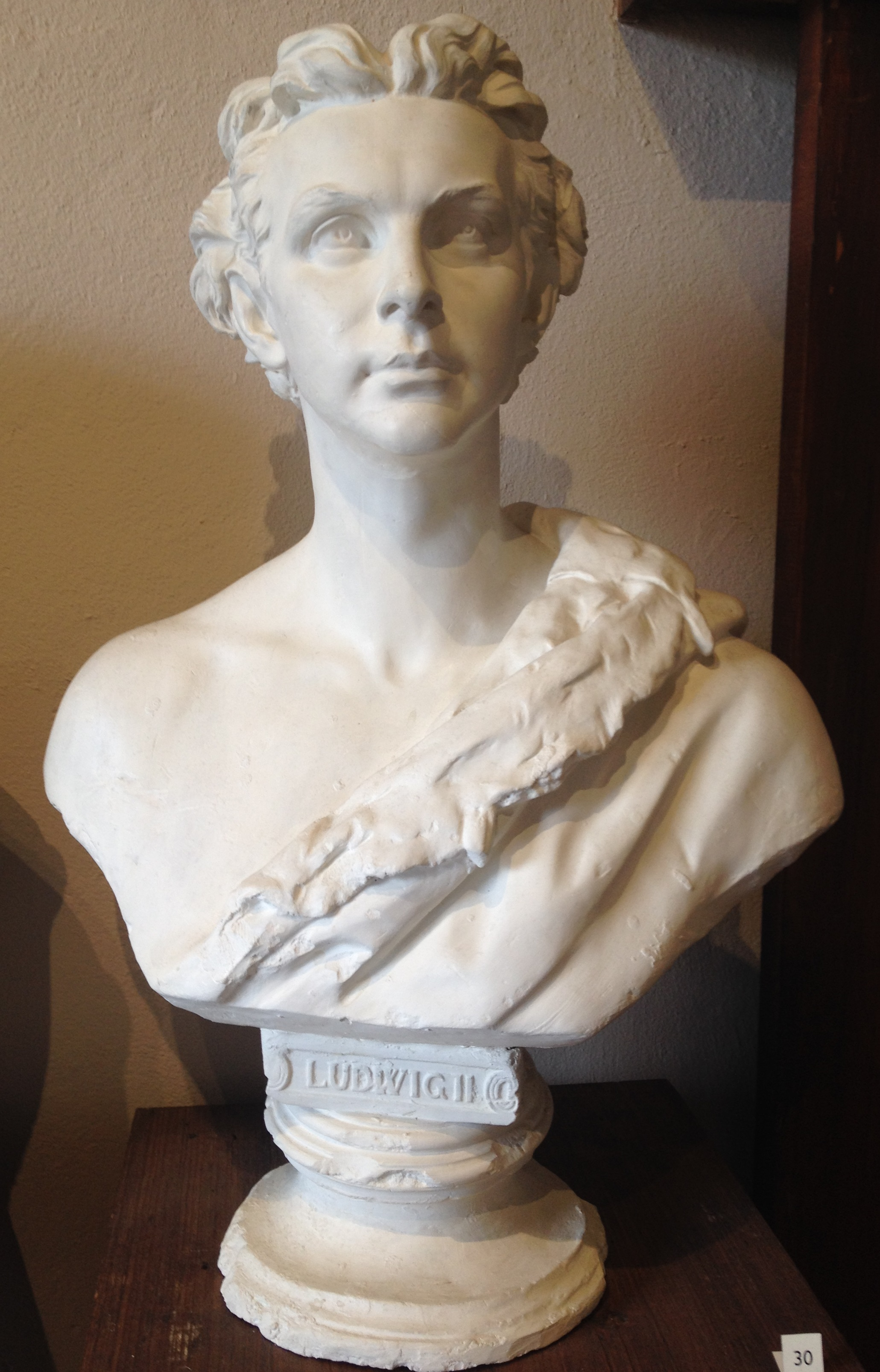 Bust of King Ludwig II of Bavaria (1868) by Elisabet Ney, at the Elisabet Ney Museum in Austin, Texas